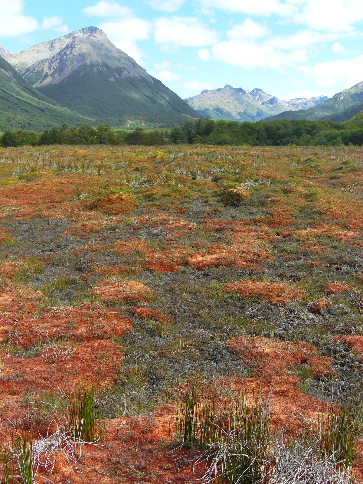 Turbal in Valle de Andorra; Turns out you can walk right across these gigantic sphagnum bogs. Maybe it's because we haven't had that much rain recently. I'm told they're up to 33 meters deep in places in Tierra del Fuego.